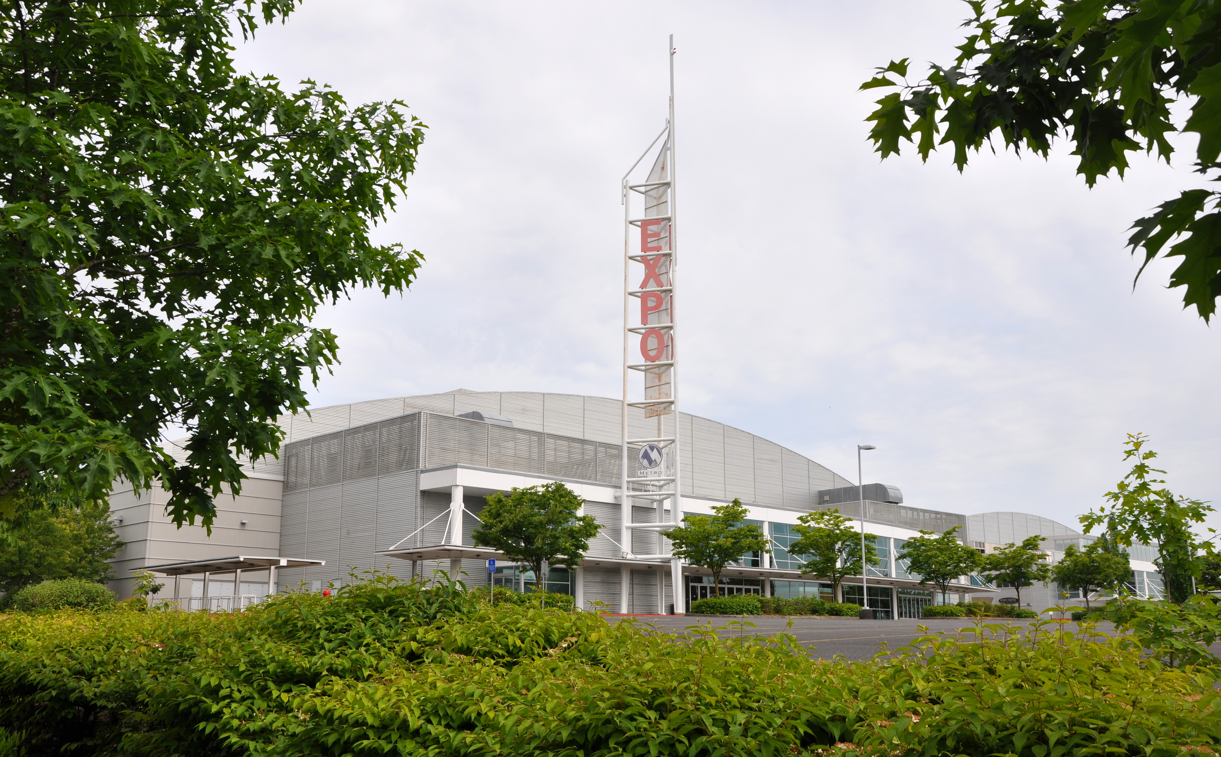 Portland Metropolitan Exposition Center in Portland in the U.S. state of Oregon